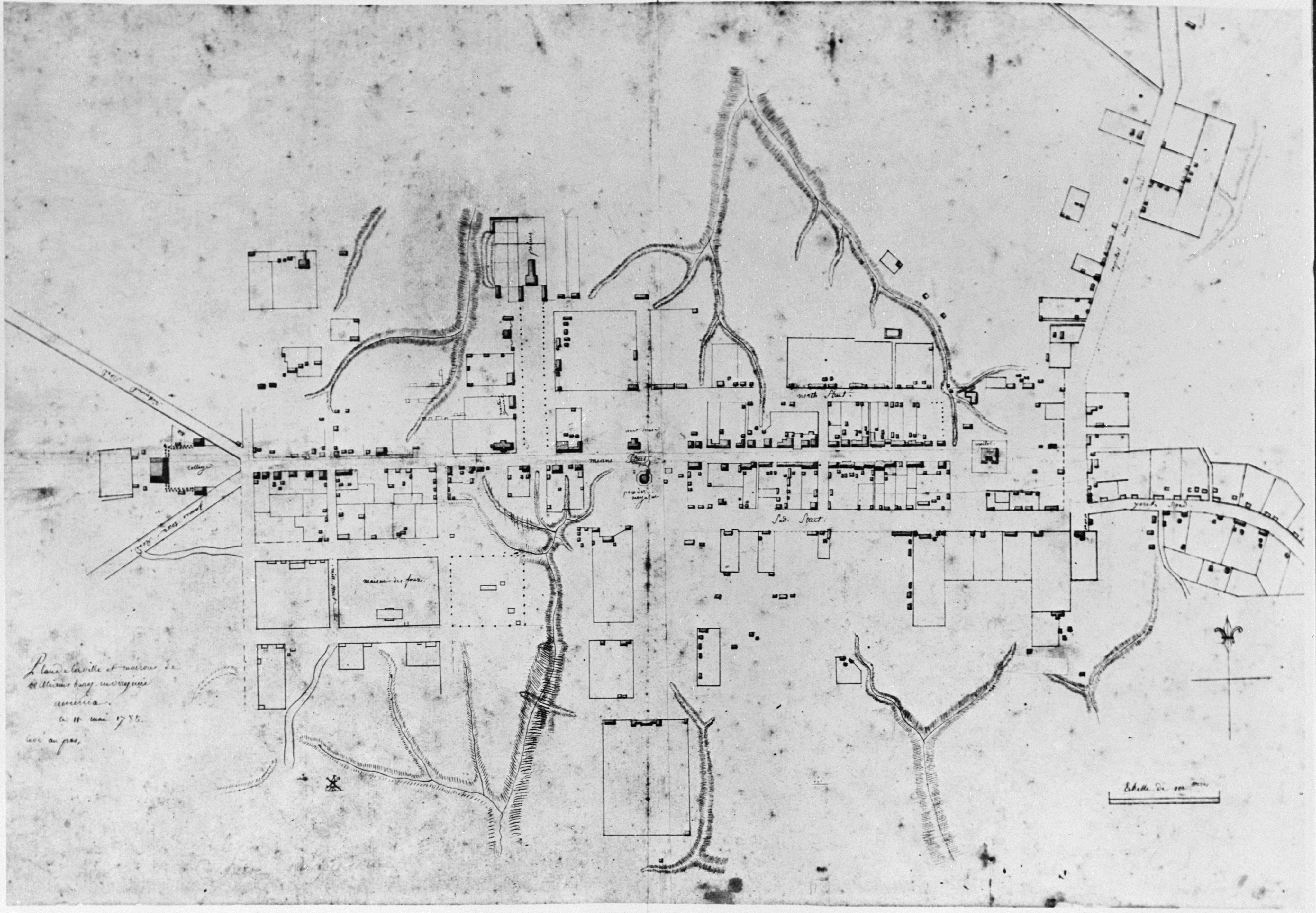 Williamsburg, Virginia. The capitol of the Virginia colony during the eighteenth century which was reconstructed and restored to its original state by John D. Rockefeller Jr. during the 1930s. The Frenchman's map whichh is so-called for lack of identity of its author. It is dated 1782 and was "levee au pas".